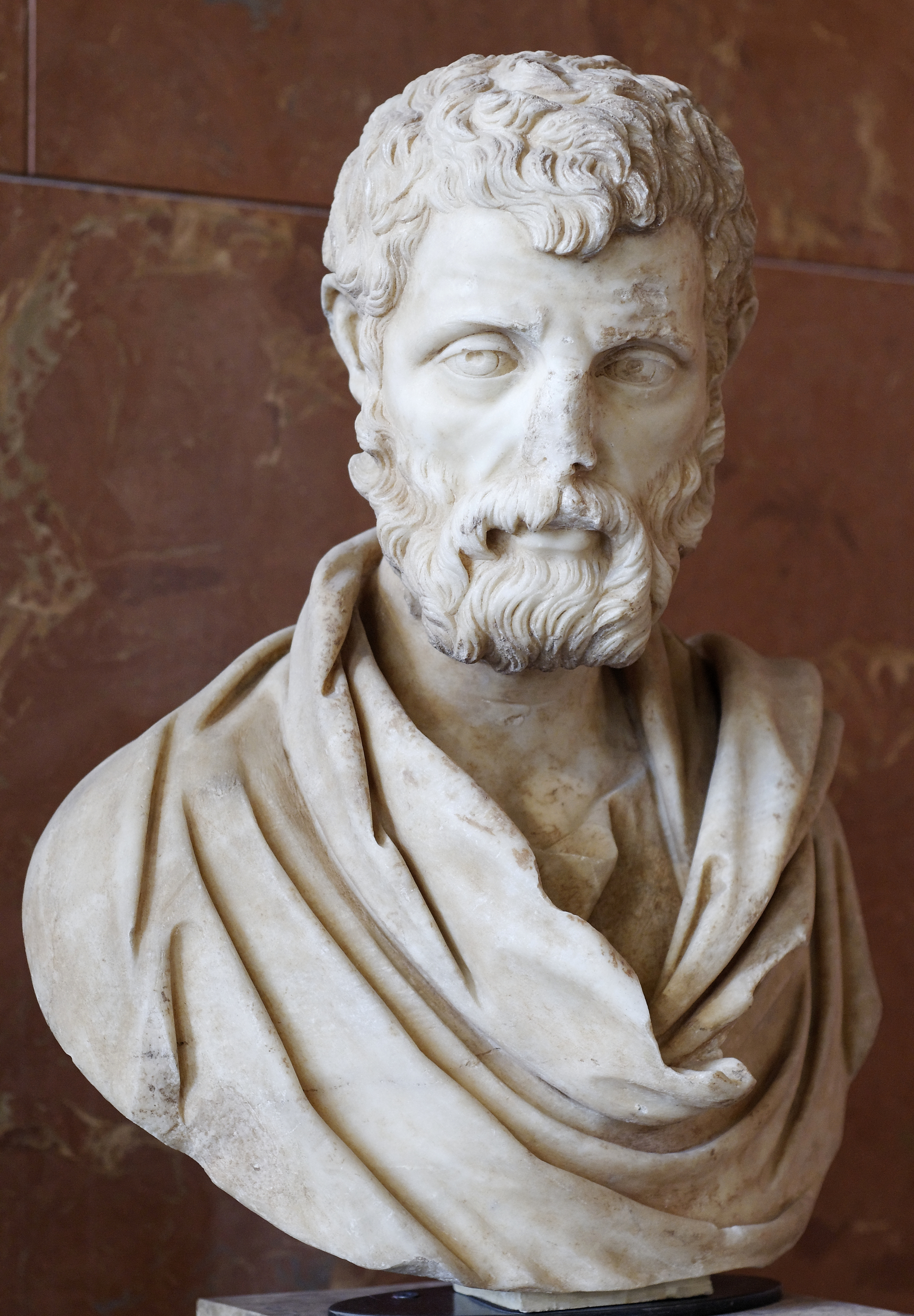 Portrait of Herodes Atticus. Marble, Roman artwork, ca. 161 CE. From Probalinthos, Attica, Greece.